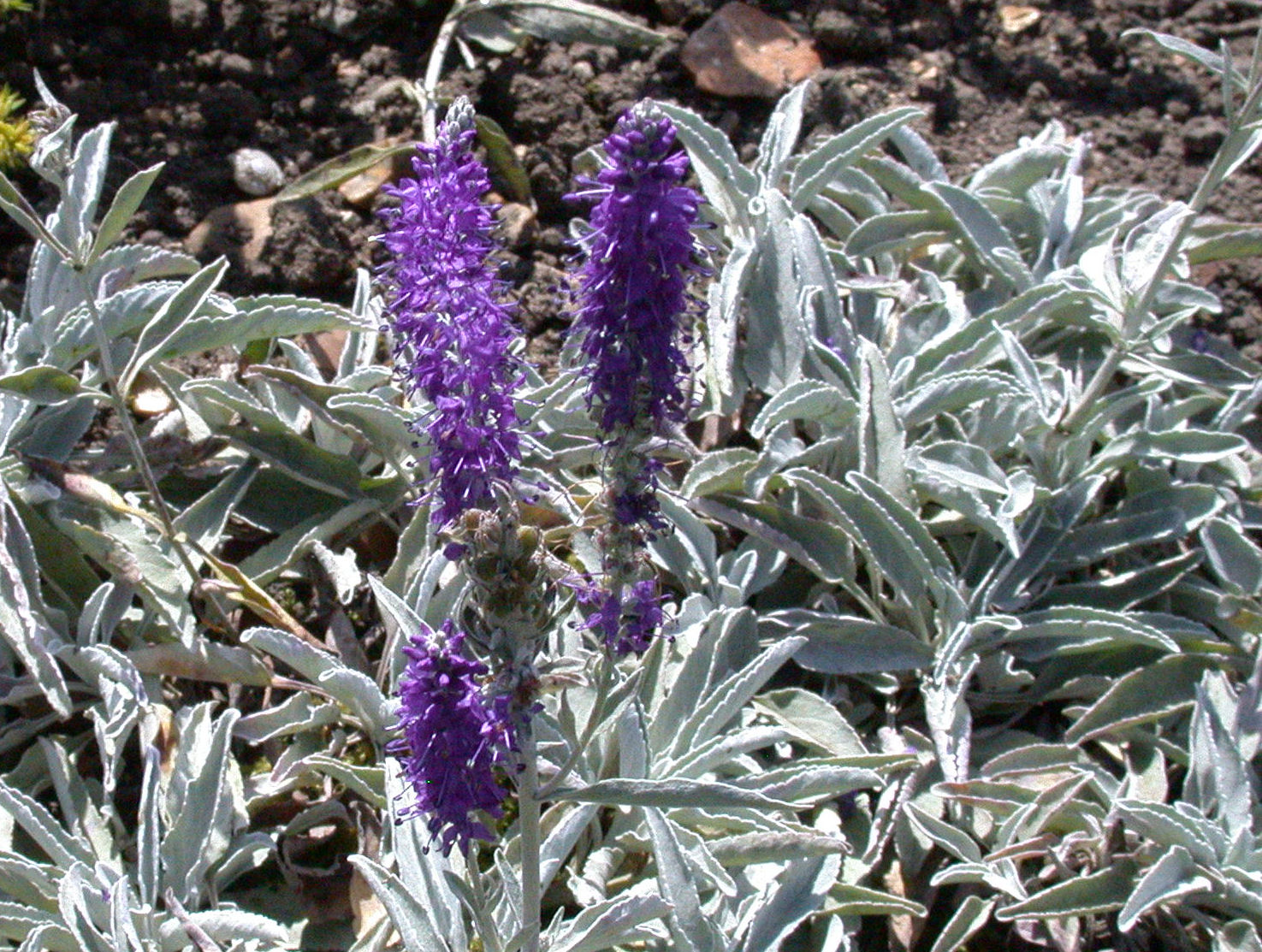 Specimen labelled: "Veronica incana. Silver Speedwell. Scrophulariaceae. Europe, N Asia."